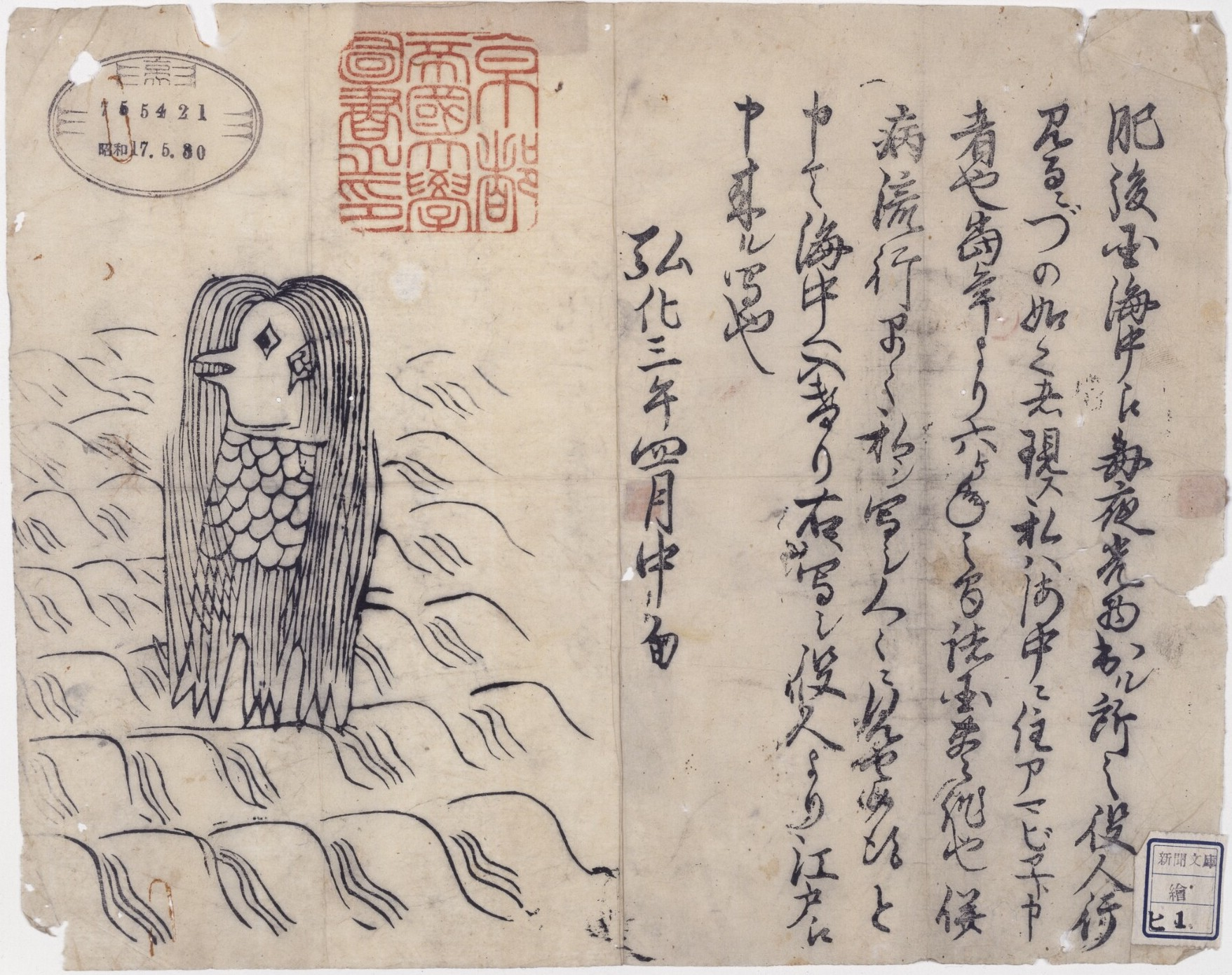 Amabie (アマビエ, the mermaid that foretold a plague) from kawaraban (瓦版, newspapers of the Edo era)